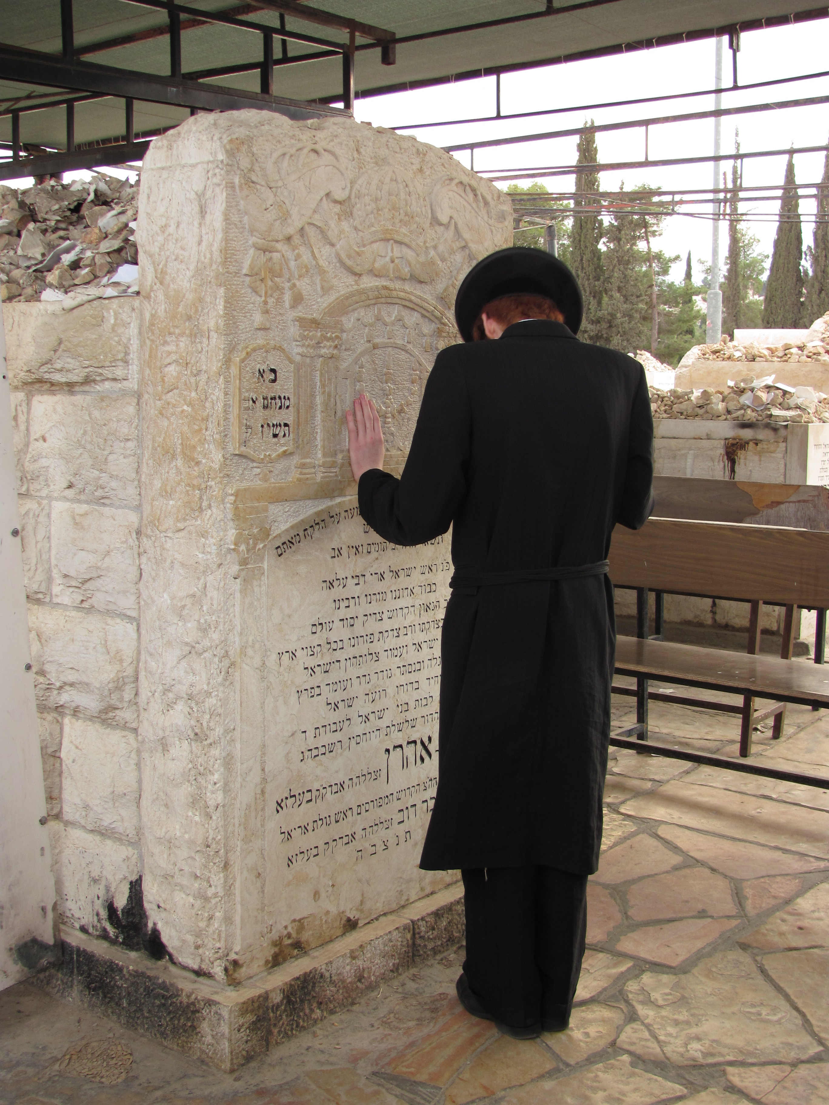 Man praying at the grave of Rabbi Aharon Rokeach, the fourth Belzer Rebbe, in the Har HaMenuchot cemetery, Jerusalem, Israel